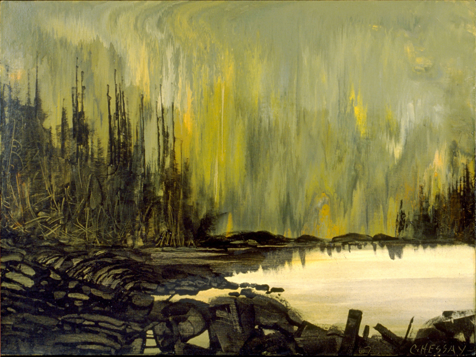 (West Coast) Rain Forest, a 1967 painting by Carle Hessay (1911-1978)